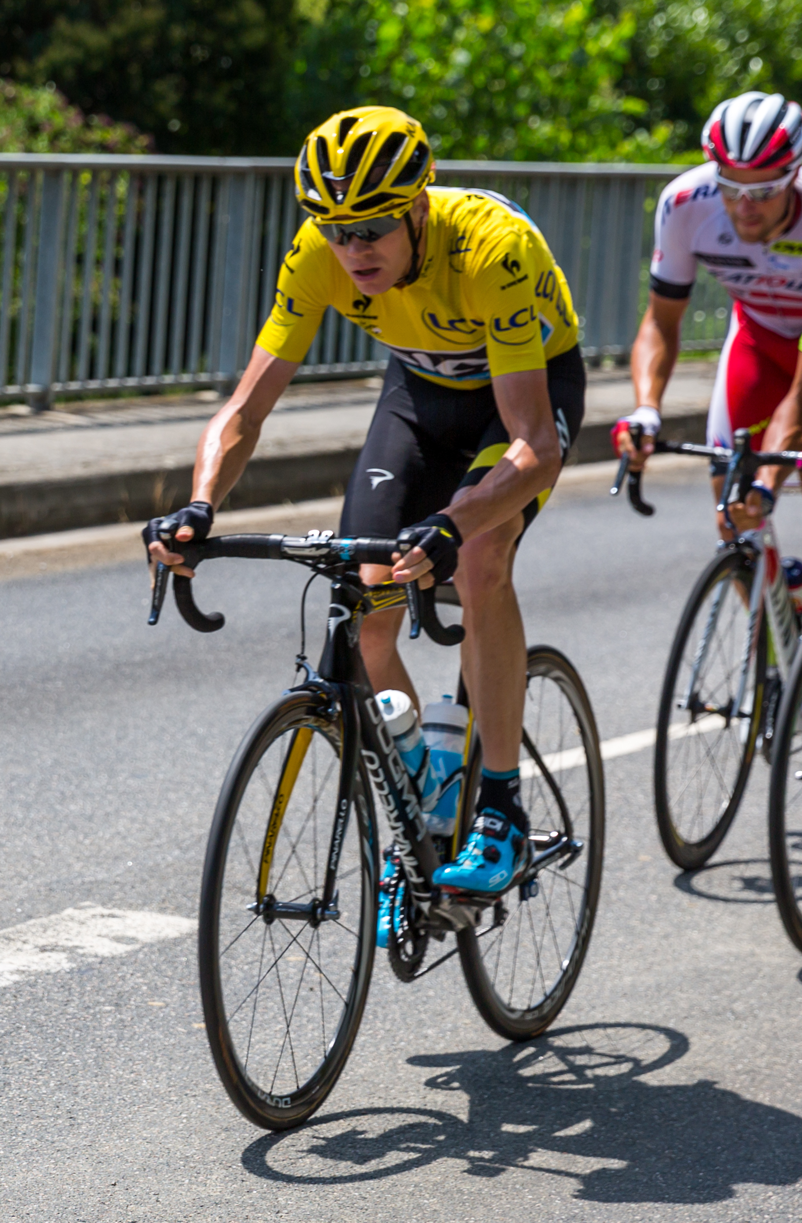 Cyclist of FDJ followed by Yellow Jersey Chris Froome(SKY) during stage 13.